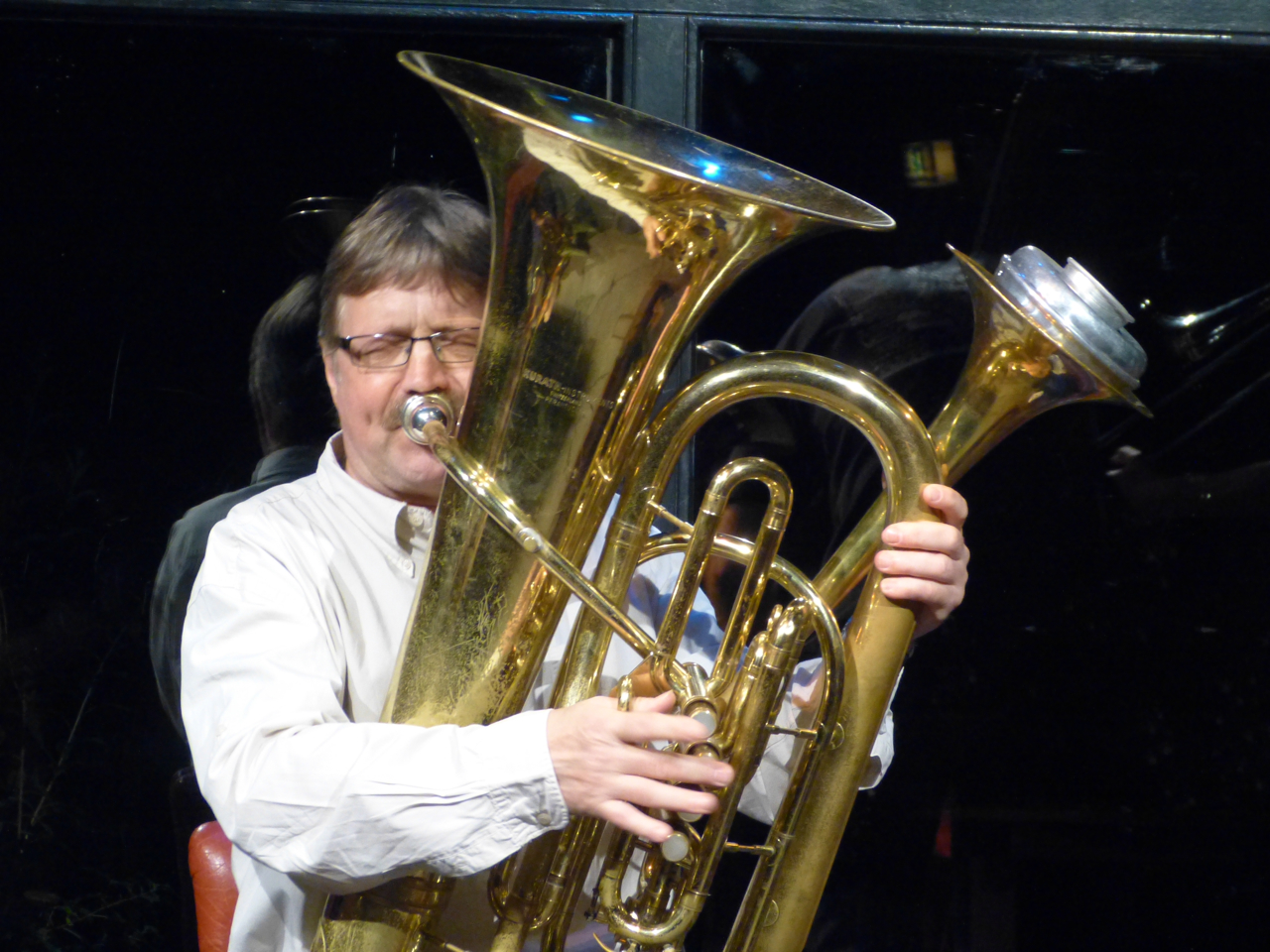 Pinguin Moschner during the Memorial for Peter Kowald at Stadtgarten Cologne, Germany, September 21st, 2012